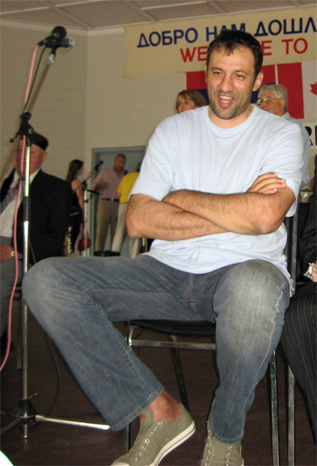 Vlade Divac in Niagara Falls, Ontario in 2008.